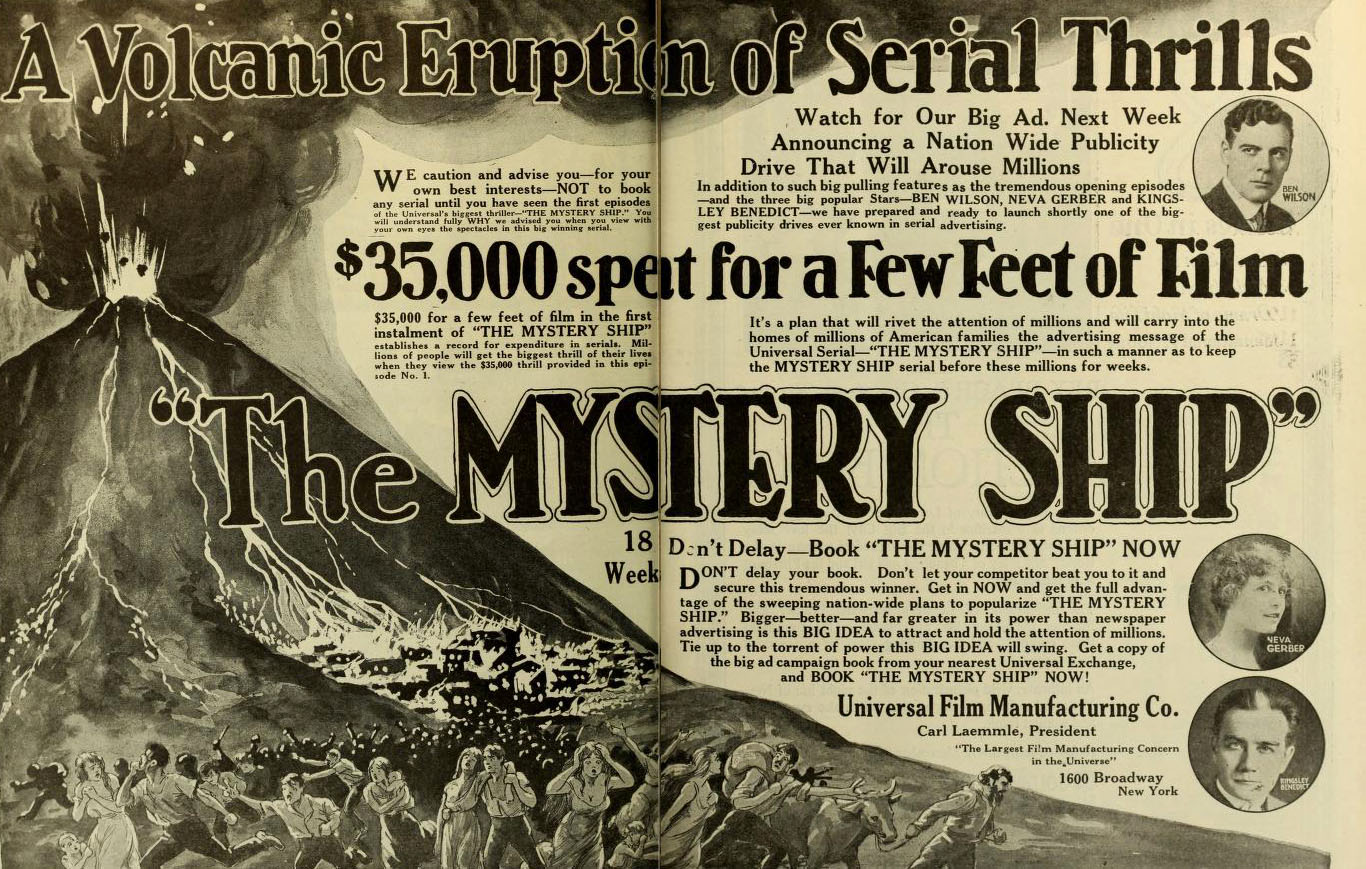 Advertisement in Moving Picture World, Dec 1917 for the American film serial The Mystery Ship (1917).